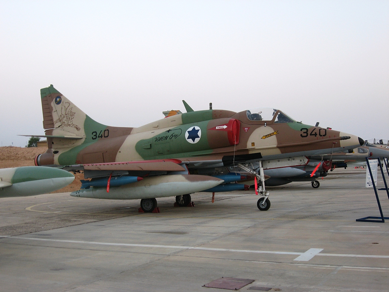 A-4N 340 of the Israeli Air Force, dusk June 26, 2008, Hatzerim AFB